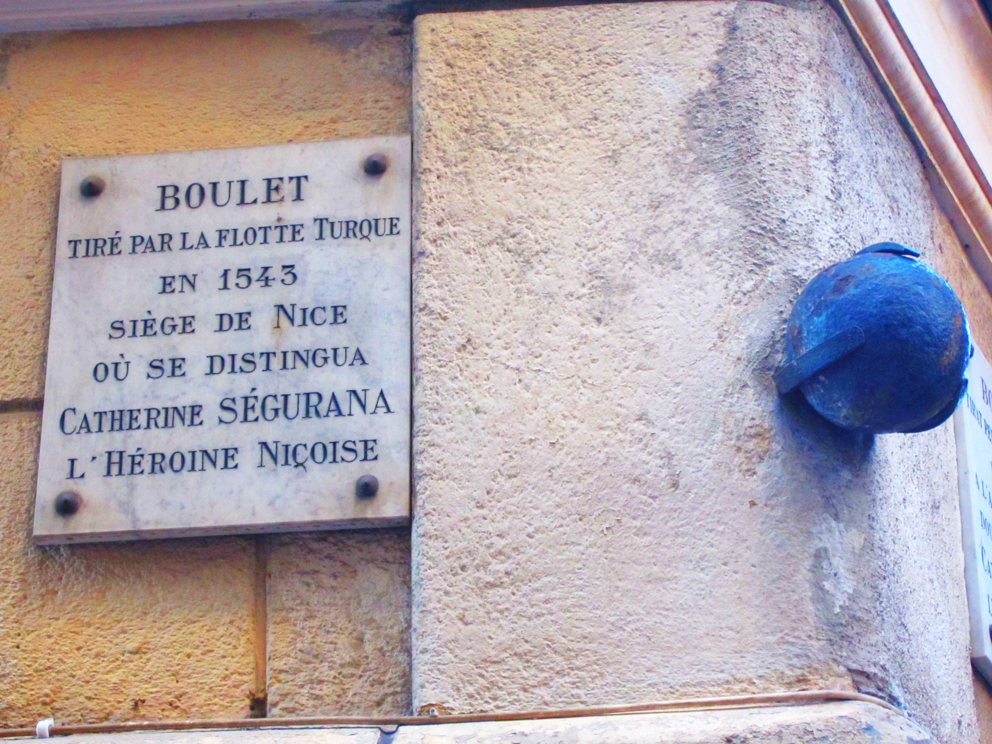 turkish canonball Nice